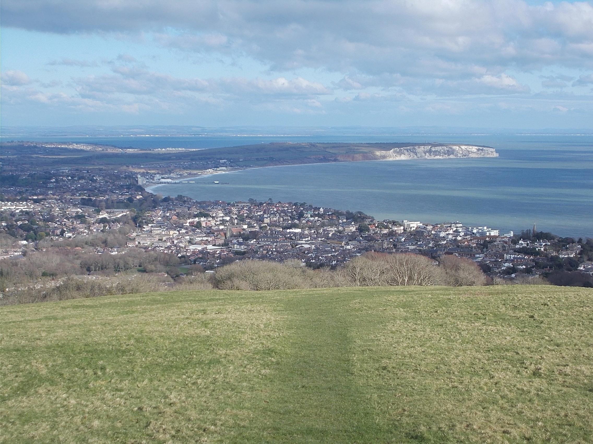 Sandown Bay, Isle of Wight, UK. View north-east from Shanklin Down.